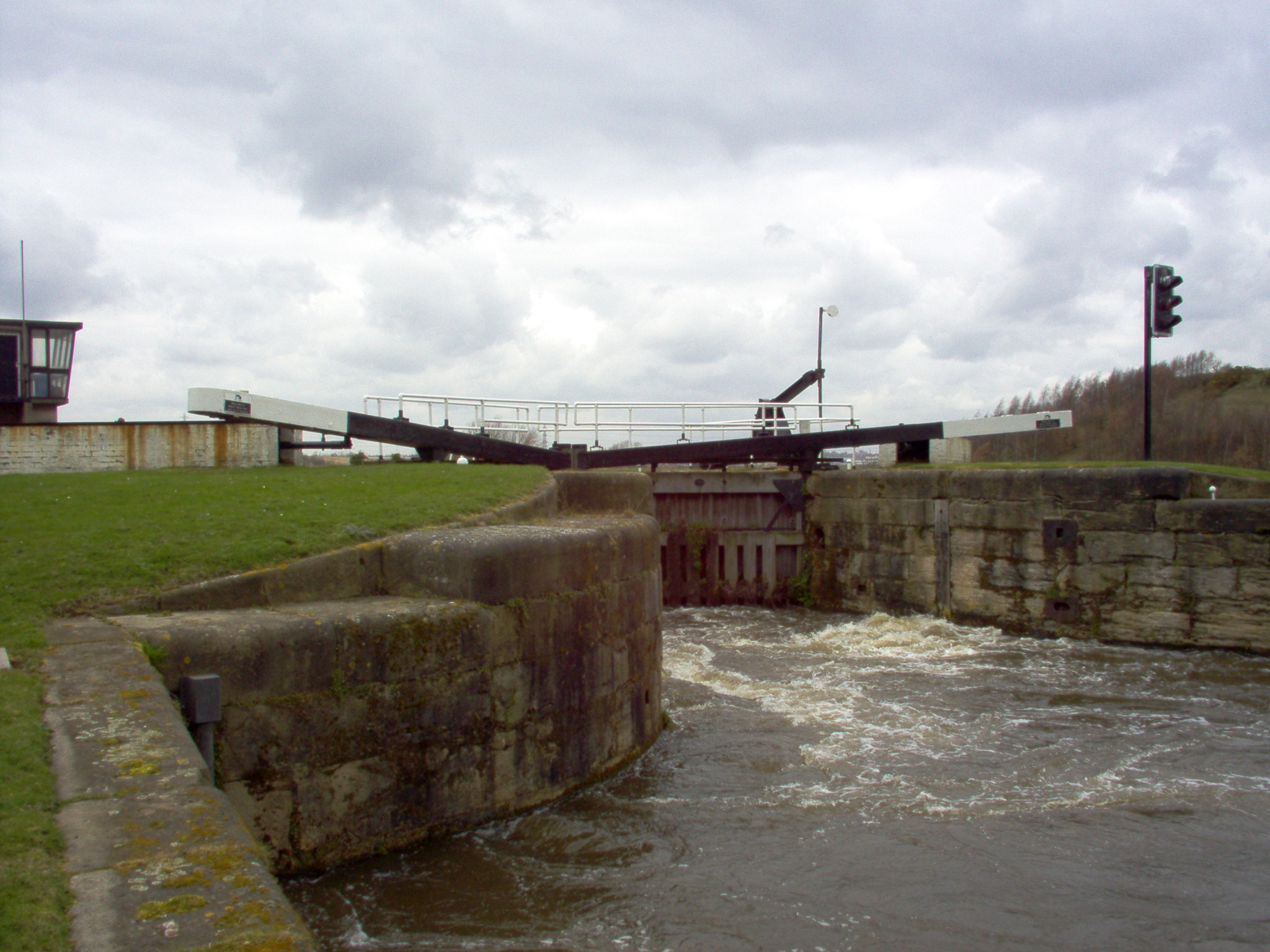 Taken by me on the Aire and Calder Navigation, Mike Reay